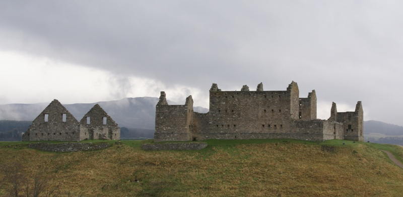 Ruthven Barracks, Ruthven, Scotland - from the south